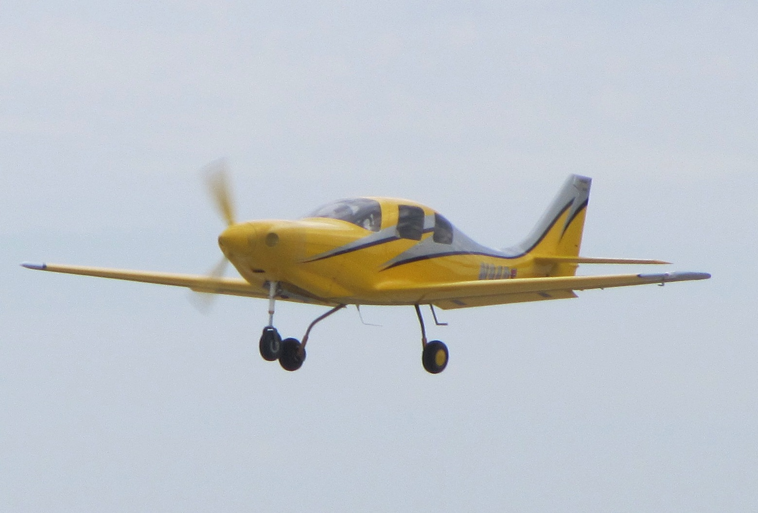 Lancair IV landing